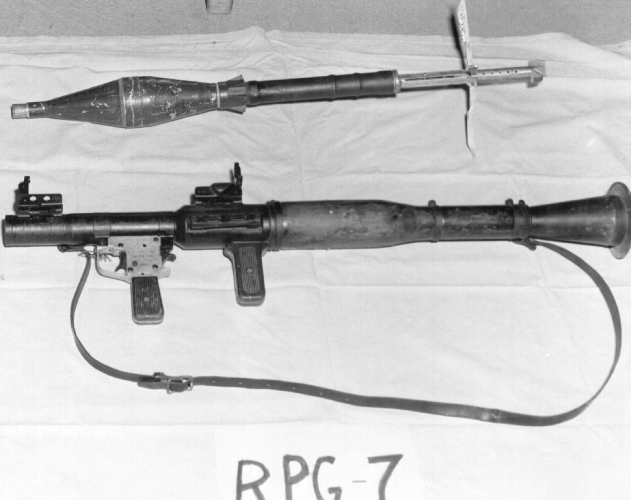 Captured weapons, Vietnam.